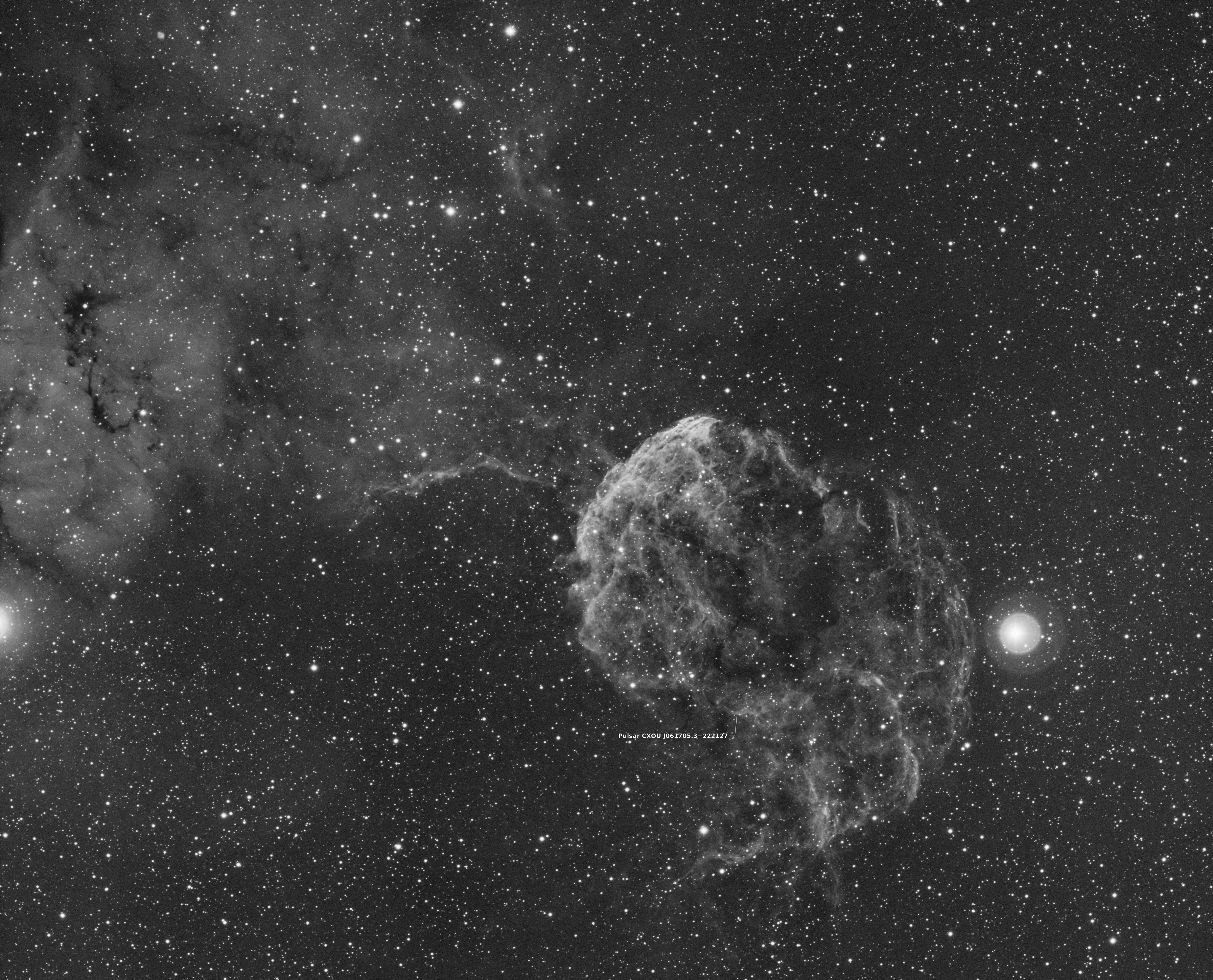 IC443, the Jellyfish Nebula on the right is the remnant of a Supernova that occured around 10.000 years ago. A (the?) resulting rapidly spinning Neutron star or pulsar CXOU J061705.3+222127 is found today at the indicated location. The nebula to the left is IC444. This image in H Alpha light was made with an Esprit100 f5.5 refractor/ QHY16200 CCD camera (cooled to -20C). 35 x 15 minutes (8.8 hrs), integrated with Astro Pixel processor and processed further with Pixinsight. Image dates: 6,7,9 and 10 November 2017.